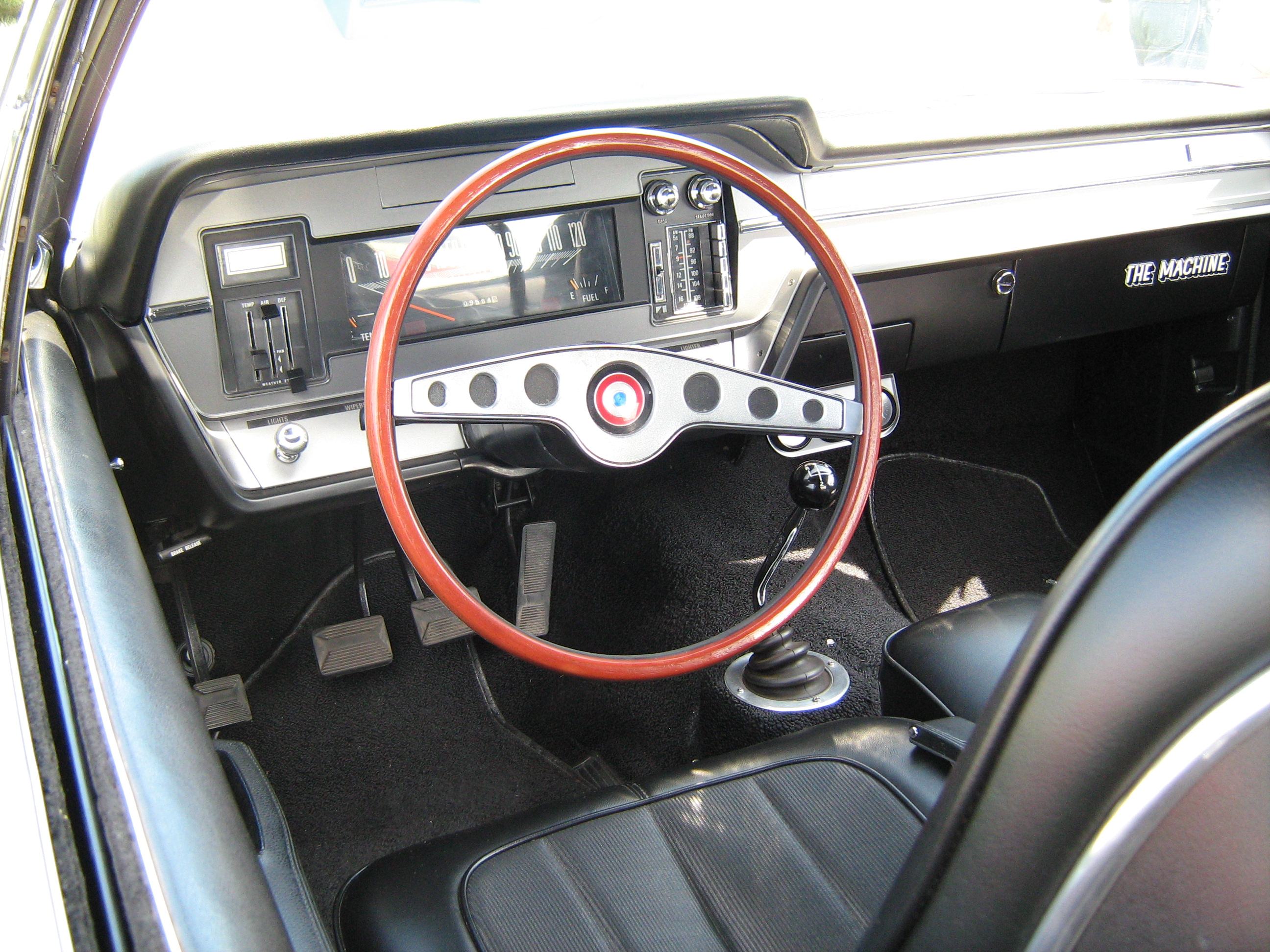 1970 "The Machine" - a special model of the AMC Rebel two-door hardtop by American Motors Corporation (AMC). Interior view - the driver's perspective of the steering wheel (standard "wood-grain" with "rim-blow" horn), instrument panel, and dashboard with optional AM/FM radio. This is a factory built classic American "Muscle Car" with AMC's 390 cu in (6.4 L) V8 engine producing 340 hp (254 kW) and 430 pound-feet of torque @ 3600 rpm. This is one of the original production versions in white with the "glow in the dark" red-white-blue color stripes and standard hood scoop and rocker panels finished in "Electric Blue." Picture taken at the AMC day at the Cecil County Dragstrip in Maryland.